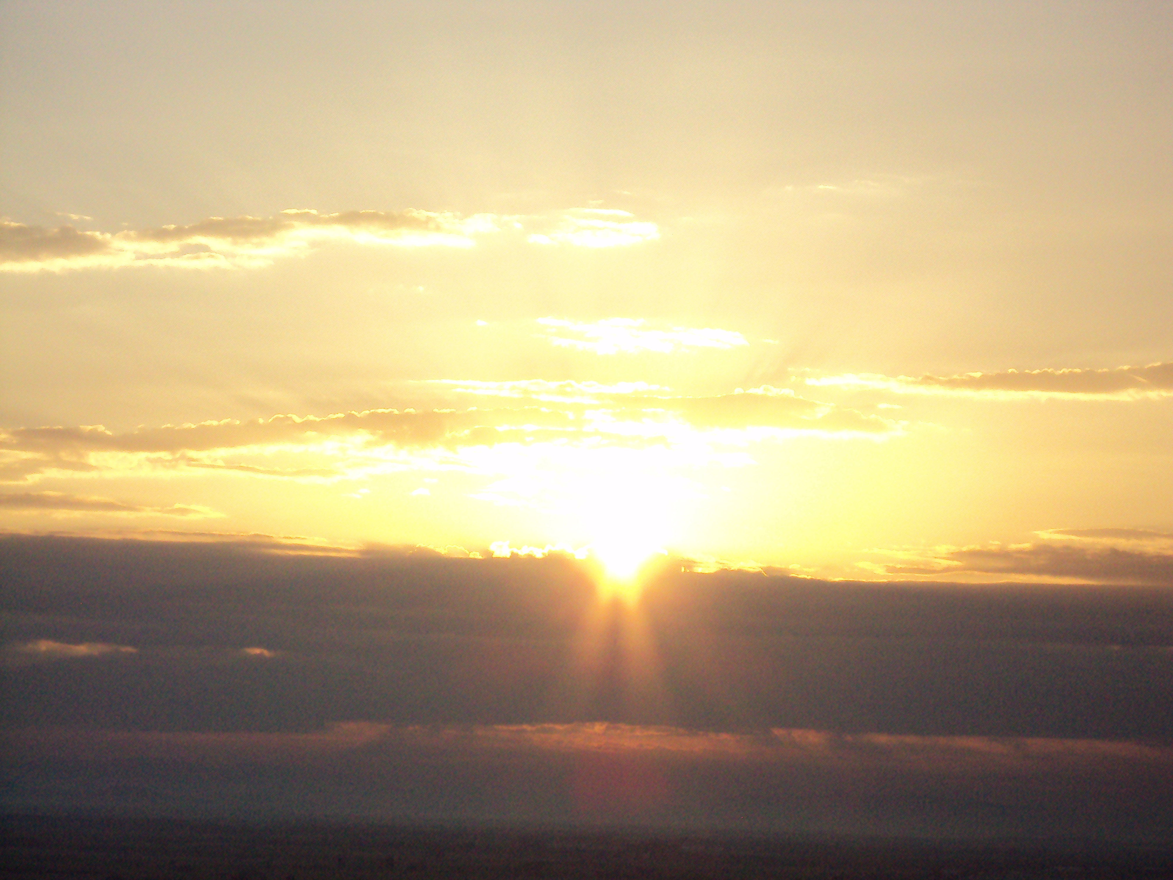 July Morning in Plovdiv